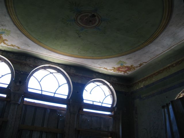 Ceiling in Beit Nabulsi, Kfar Yona